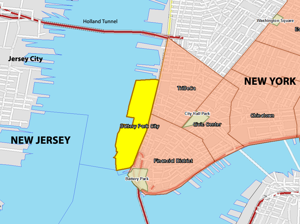 Location of Battery Park City — in Lower Manhattan.